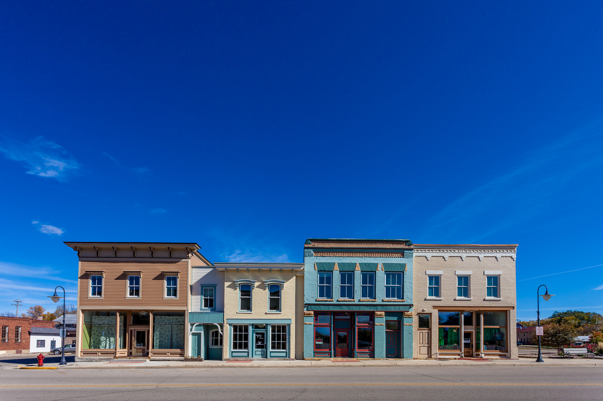 Row of historic buildings along Brodhead Street, Mazomanie, Wisconsin. Mazomanie Downtown Historic District, 1-118 Brodhead, 2-46 Hudson, 37-105 Crescent and 113 E. Exchange Sts. Mazomanie